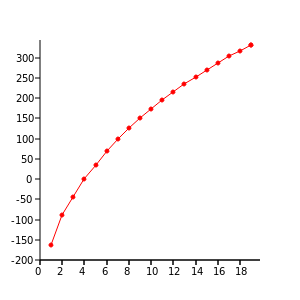 Normal boiling point (°C) vs number of carbon atoms in straight chain alkanes ( CnH(2n+2) ) from methane (n=1) to nonadecane (n=19)